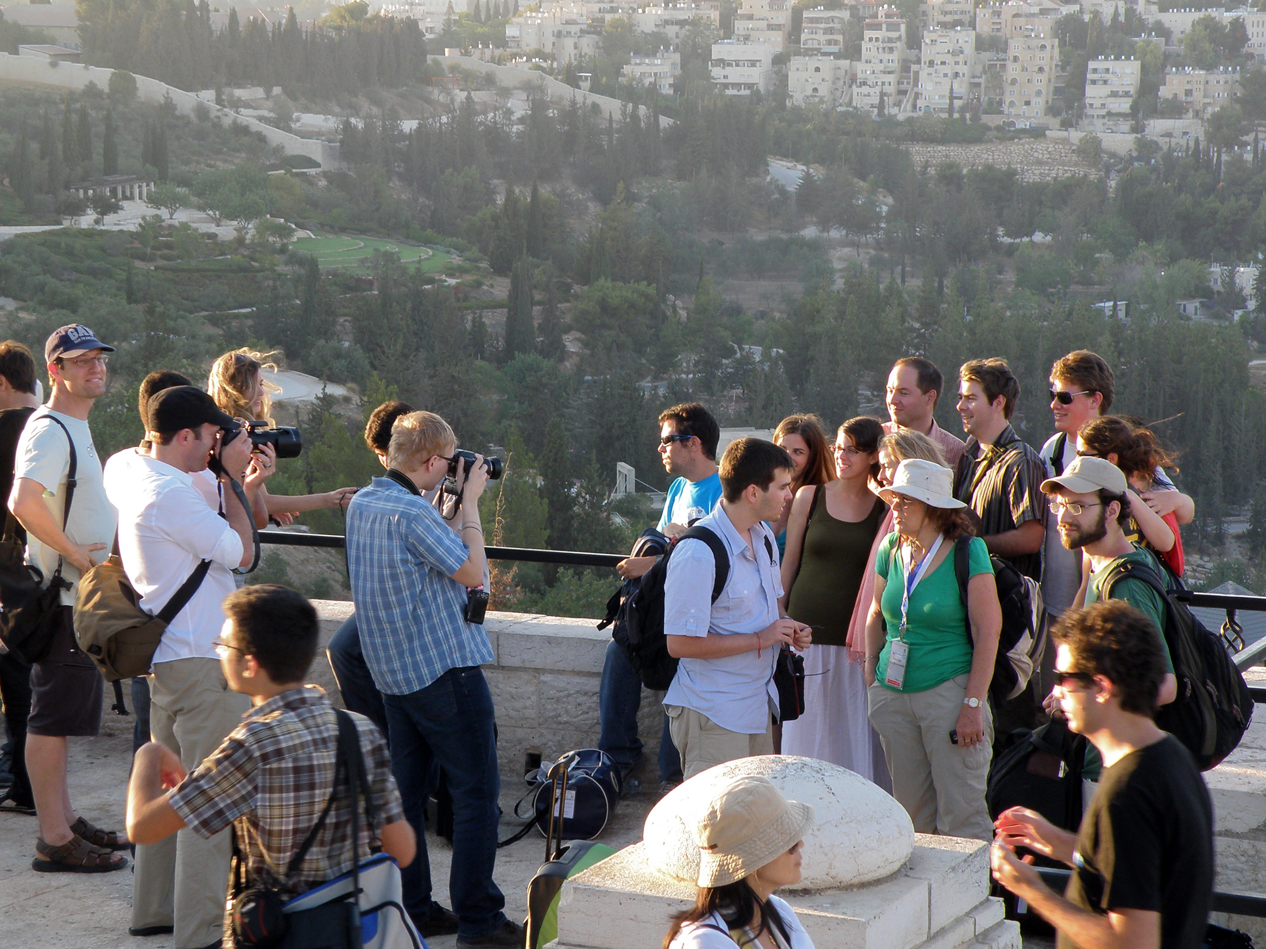 Wikimania 2011 - Jerusalem Tour